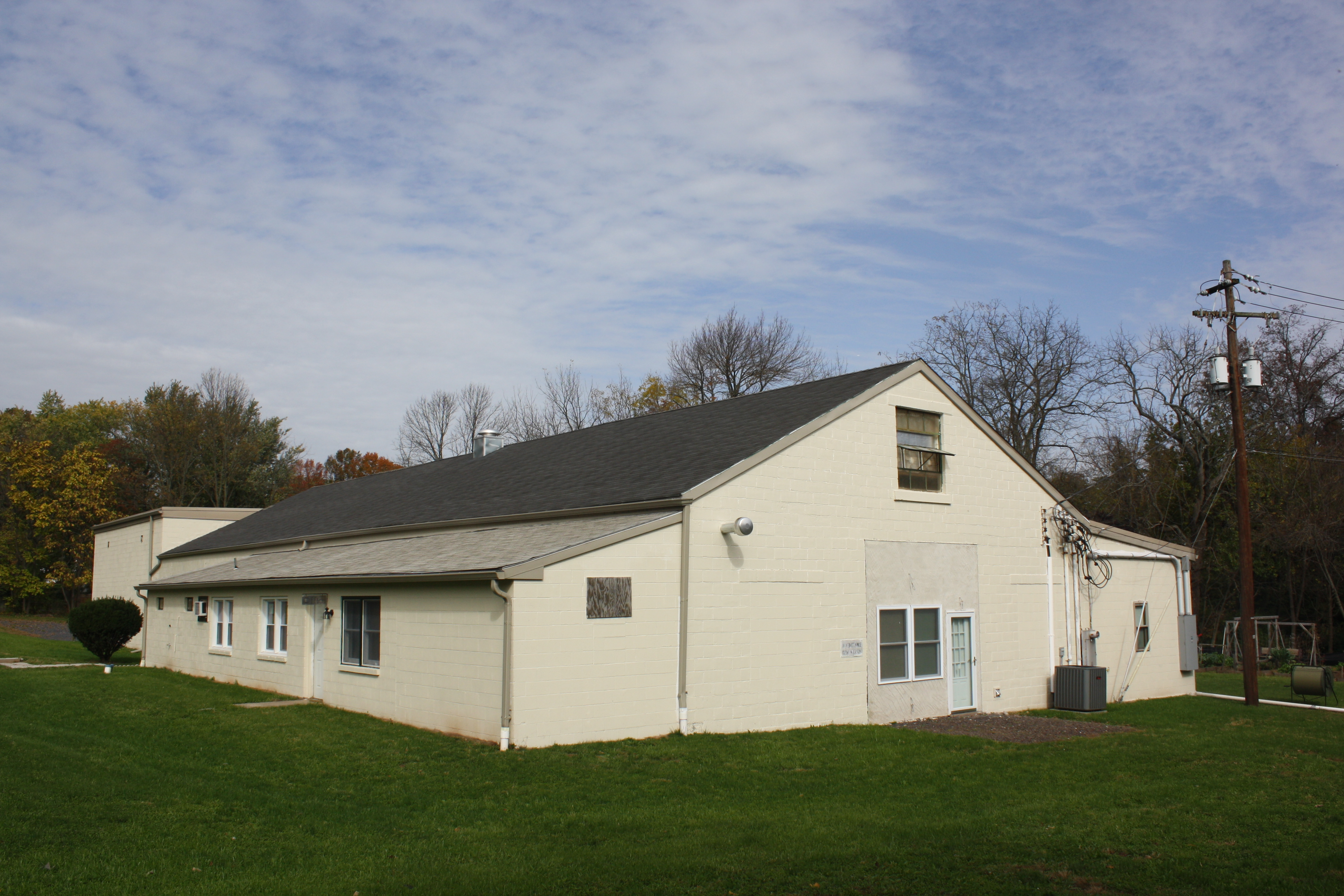 Teller Cigar Factory, also known as Sprecht Clothing Company, is a historic factory building located at Sellersville, Bucks County, Pennsylvania. 340 N. Main St., Sellersville, Pennsylvania. Object location40° 21′ 43″ N, 75° 18′ 48″ W